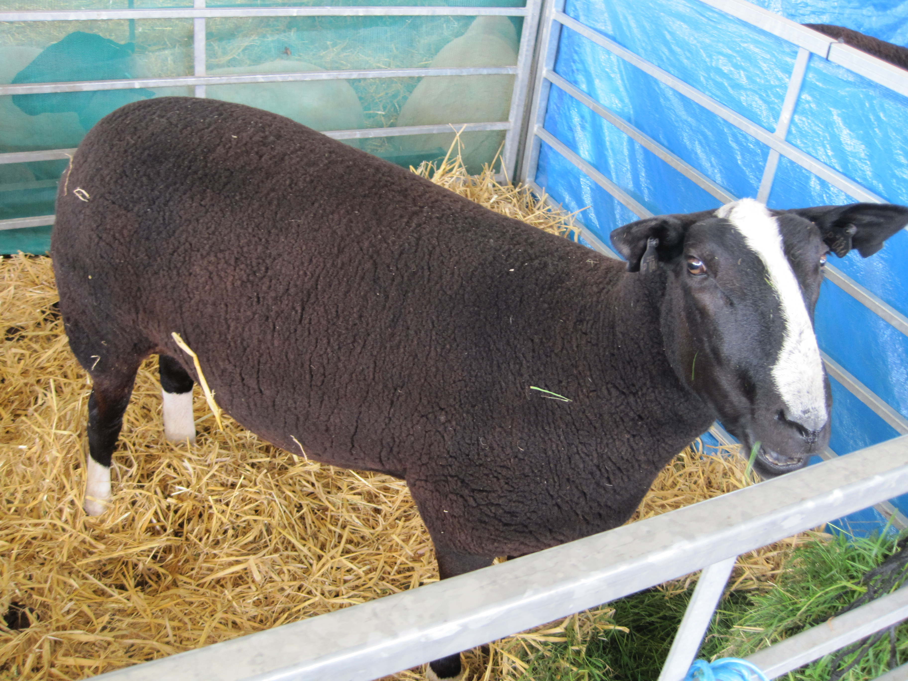 Zwartbles Show Ewe At A UK Show